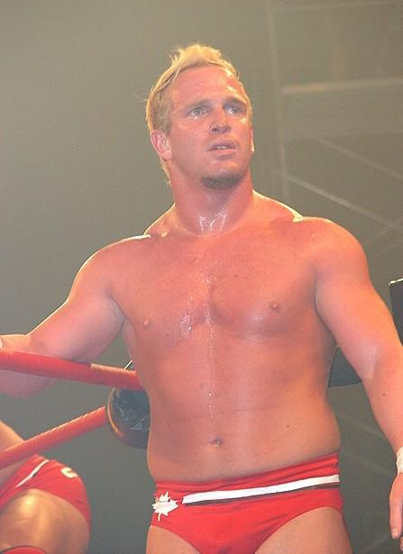 Eric Young in Team Canada at TNA impact taping Orlando Florida Photo Rob Beukema